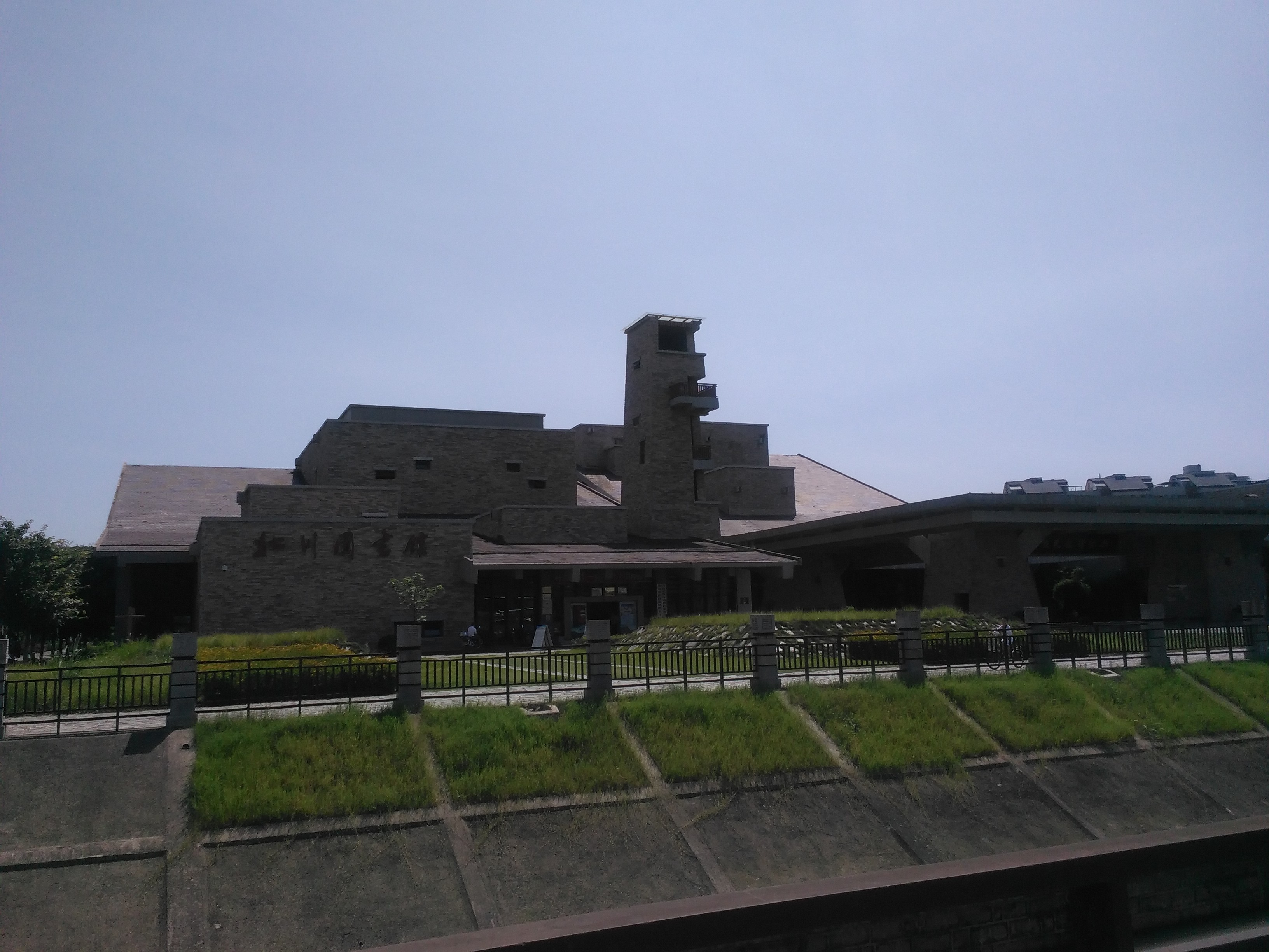 Beichuan Library